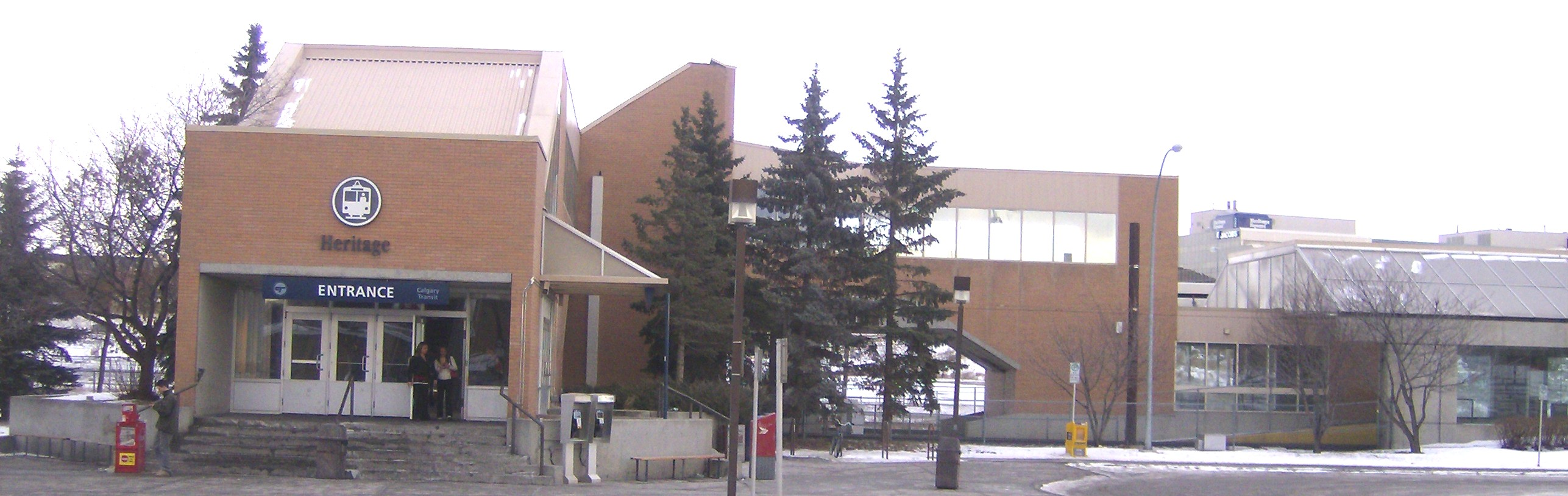 Heritage (C-Train) in Calgary, Alberta, Canada.